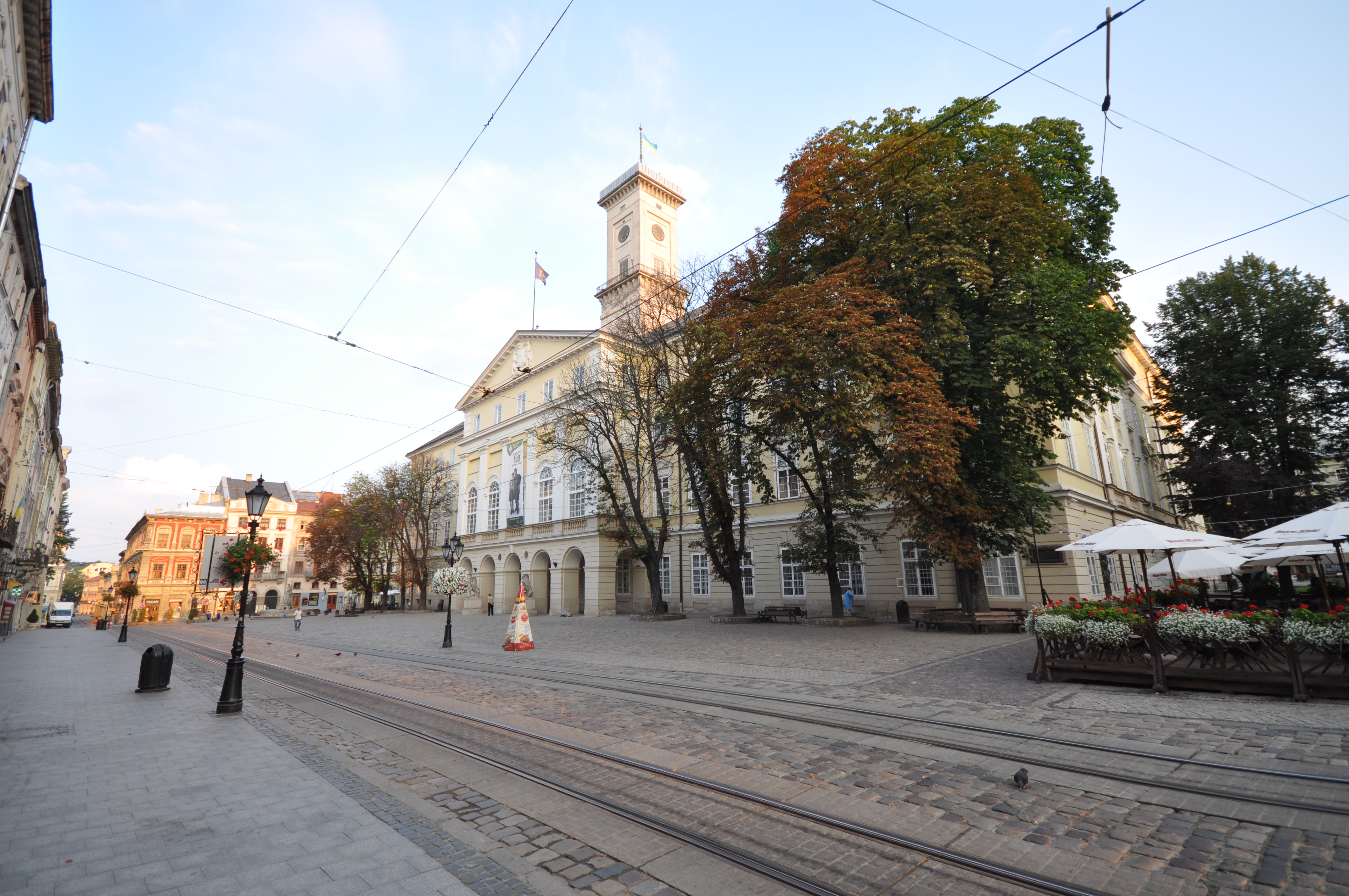 The first town hall in Lviv appeared shortly after the city government rights (Magdeburg Law in 1357). The building was made of wood and soon it burned down (1381). After the fire the construction of a stone town hall was started. By the end of the middle age the Lviv city hall was a conglomeration of buildings. The middle part of the building was its oldest part, dating from the XIV century. The western part was built in the years 1491-1504. The dominant feature of the composition was the tallest tower, topped by a mannerist shako (1619, architect A.Bemer ). Modern building A new tower was laid in 1827 and built between 1830 and 1835 following a Viennese Classical style. Authors of the project were architects Y. Markle, F. Thresher (or Treter), A. Vondrashek. The City Hall is a four-story building with a patio, and features a town hall clock tower. In 1848 during the revolutionary events in Lviv city center the original clock tower collapsed. In 1851 the building was repaired. Since 1939 the building houses the Lviv city council